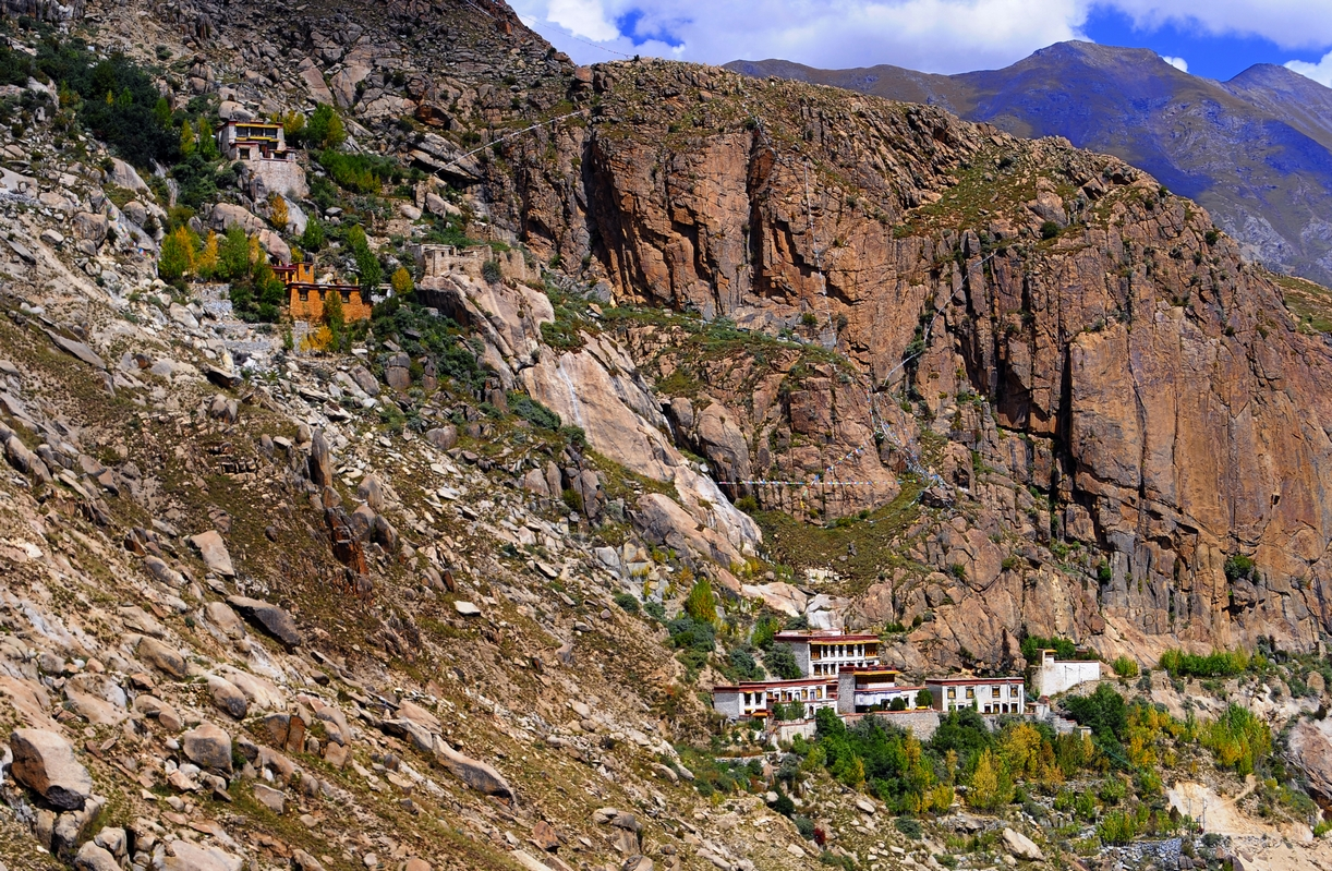 Rakhadrak Hermitage (Ra kha brag ri khrod) is located northeast of (and one ridge over from) Se ra. It takes about forty-five minutes to walk from Se ra to the hermitage (ri khrod). Ra kha brag is also just a ten-minute walk up the mountain from Keutsang Hermitage (Ke’u tshang ri khrod). Like Ke’u tshang, it is one of the hermitages on the “Sixth-Month Fourth-Day” (Drug pa tshe bzhi) pilgrimage circuit. The site is divided into two parts. In the lower portion, one finds a compound, which is the site of the caves of Tsong kha pa (1357-1419), Rgyal tshab rje (1364-1432) and Mkhas grub rje (1385-1438). It is also the site of a small hut that belonged to Byams chen chos rje (1354-1435), the founder of Se ra, where the latter is said to have begun the tradition of the the Ganden Feast of the 25th (Dga’ ldan lnga mchod) commemoration of the death-date of Tsong kha pa. East of this compound, there is a small kitchen and a large building that before 1959 appears to have served as monastic living quarters.